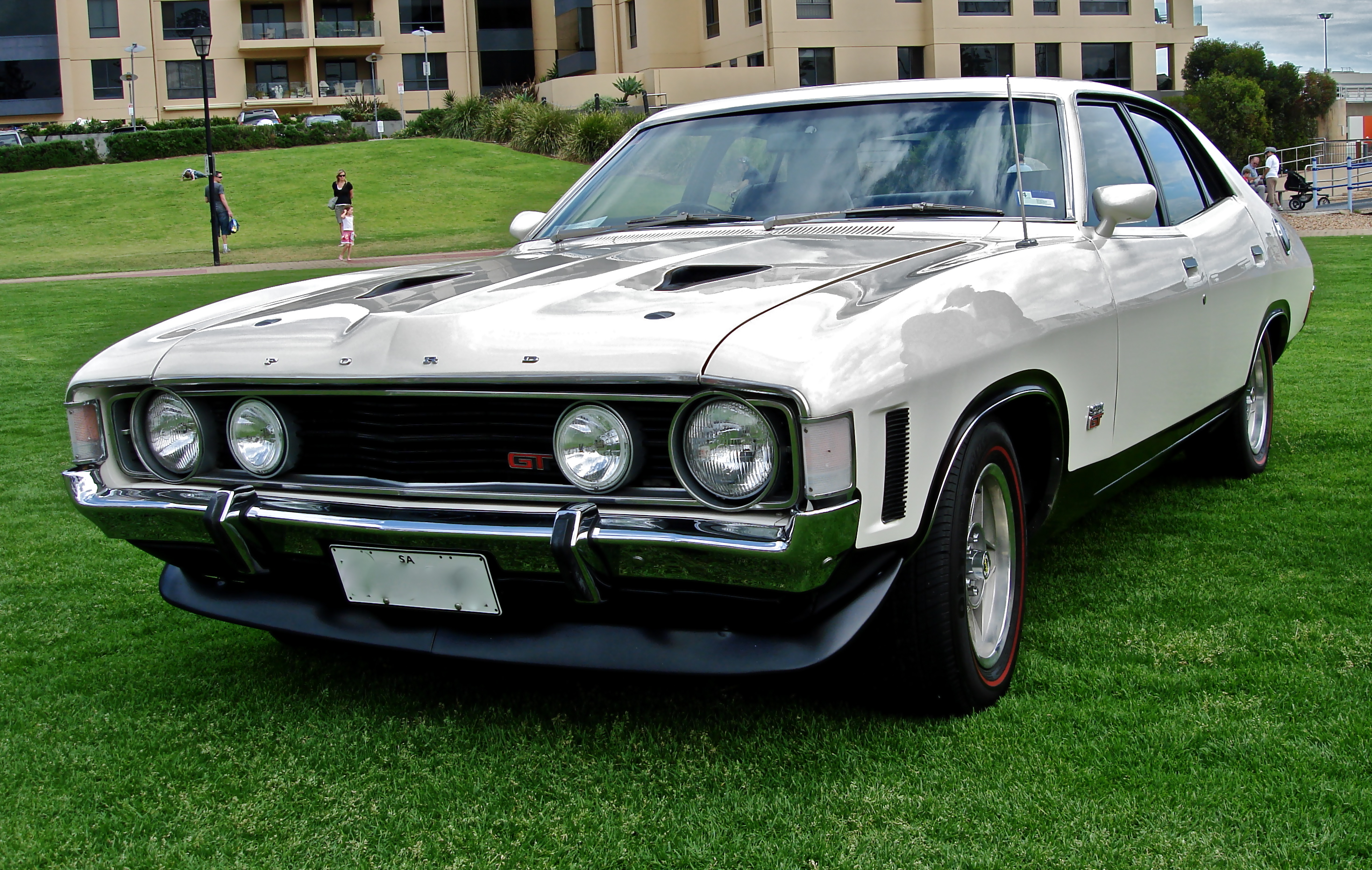 Ford Falcon GT XA sedan.